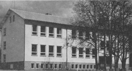 Photograph of Veteli senior high school building (“Kaskela” or “Suojala”?).